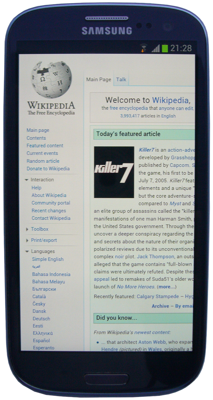 Samsung Galaxy S III smartphone displaying the main page of the English Wikipedia with the built-in Android TouchWiz browser without bar. Warning: Disldo alert browser.